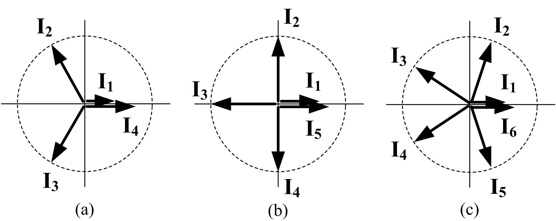 CGKang Image